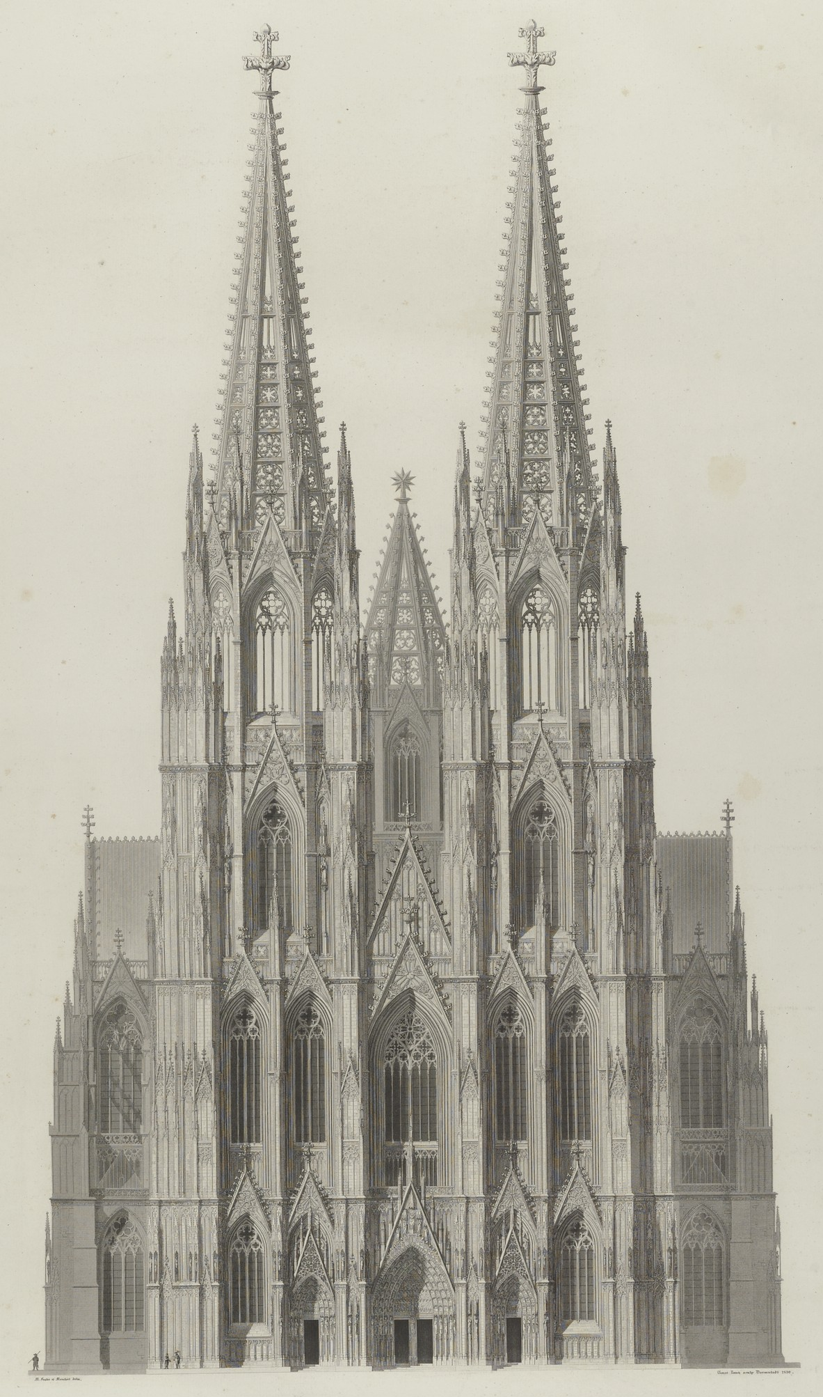 Sulpiz Boisserée: Ansichten, Risse und einzelne Theile des Doms von Köln, mit Ergänzungen nach dem Entwurf des Meisters, nebst Untersuchungen über die alte Kirchen-Baukunst und vergleichenden Tafeln der vorzüglichsten Denkmale. Cotta, Stuttgart 1821, plate 4. Fictional view of finished Cologne Cathedral, after a draft by Sulpiz Boisserée.